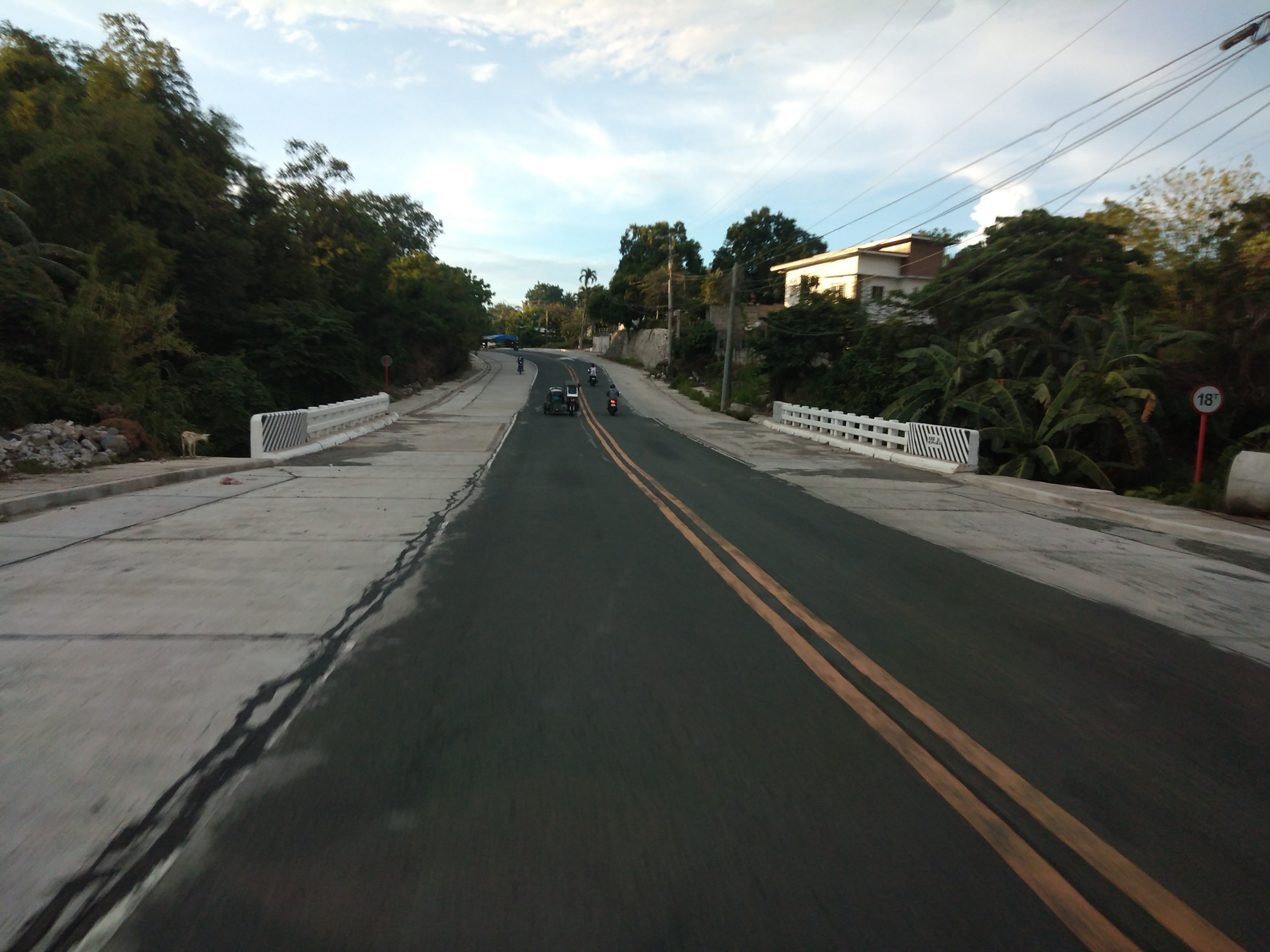 A segment of Trece Martires–Indang Road in Indang, Cavite.